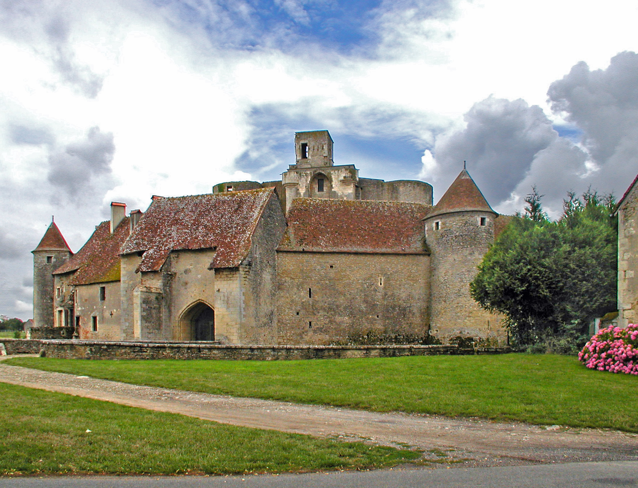 Castle of Sagonne, medieval castle entrance with its porch arch